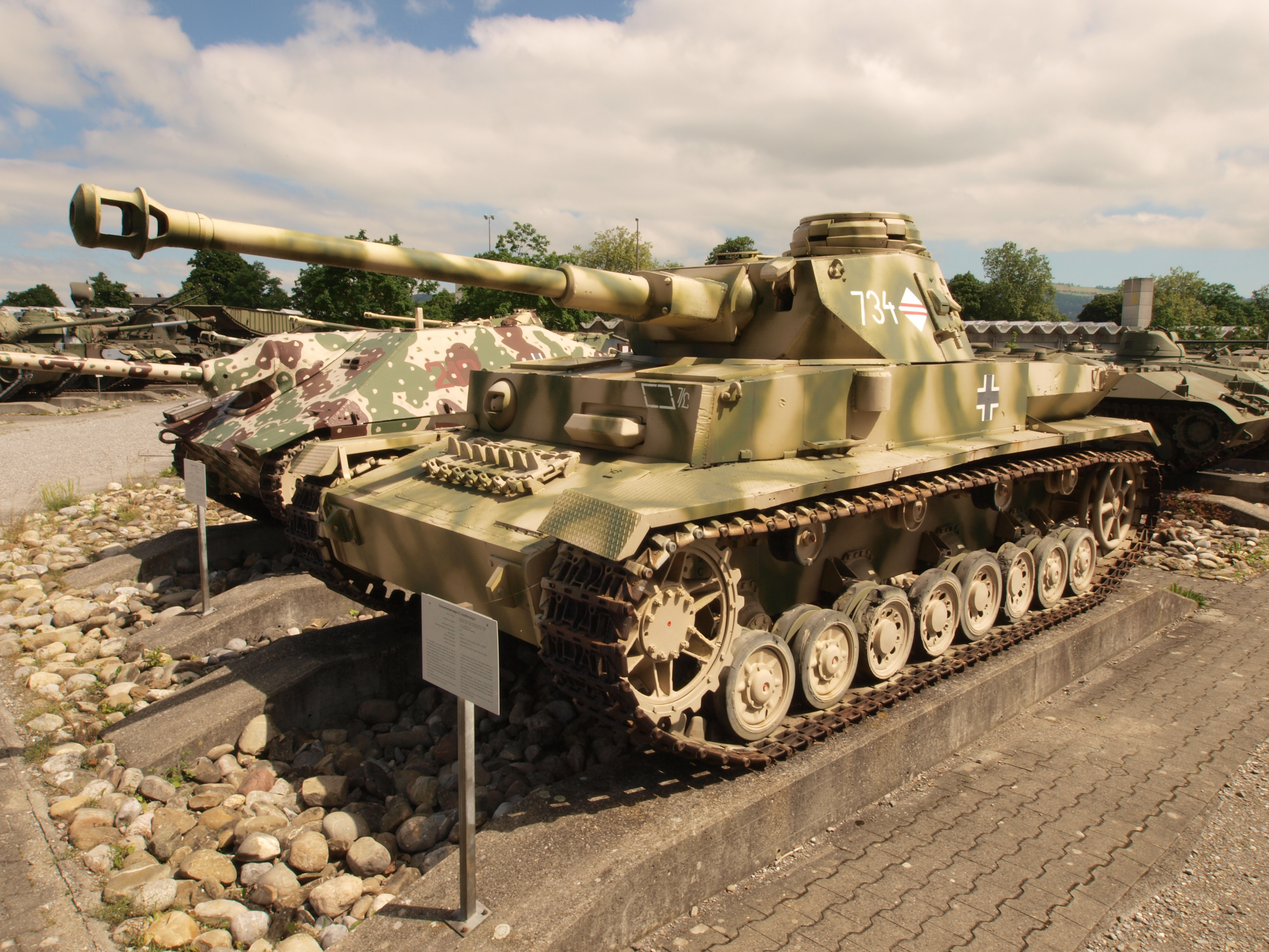 Photographed at the army base Thun, Switserland.